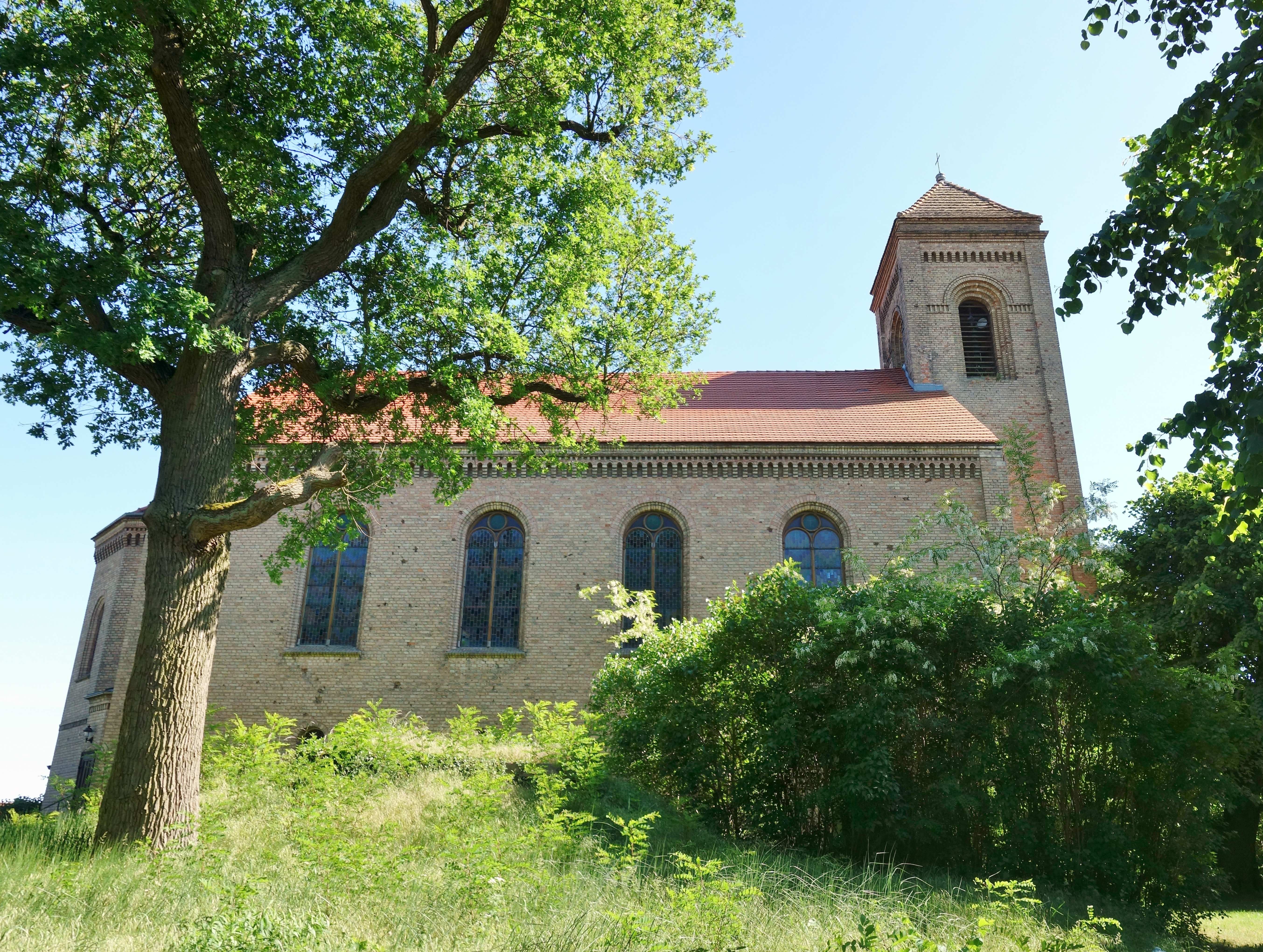 Northern view of the church in Altglietzen , Bad Freienwalde municipality, Märkisch-Oderland district, Brandenburg state, Germany